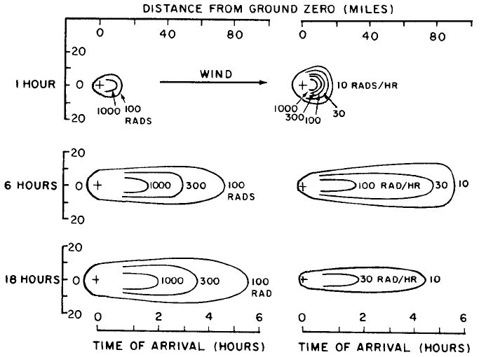 Fallout gamma radiation dose rates and doses for a burst with a total yield of 2 Mt and a fission yield of 1 Mt (hence 50% fission), edited from Glasstone and Dolan, The Effects of Nuclear Weapons, U.S. Department of Defense, December 1977. Based on 24 km/hour (15 miles/hour) mean wind speed. Shows and compares dose contours with dose rate contours for various times. Based on DELFIC (Defence Land Fallout Interpretative Code) calculations which are consistent with U.S. and British nuclear test fallout data.